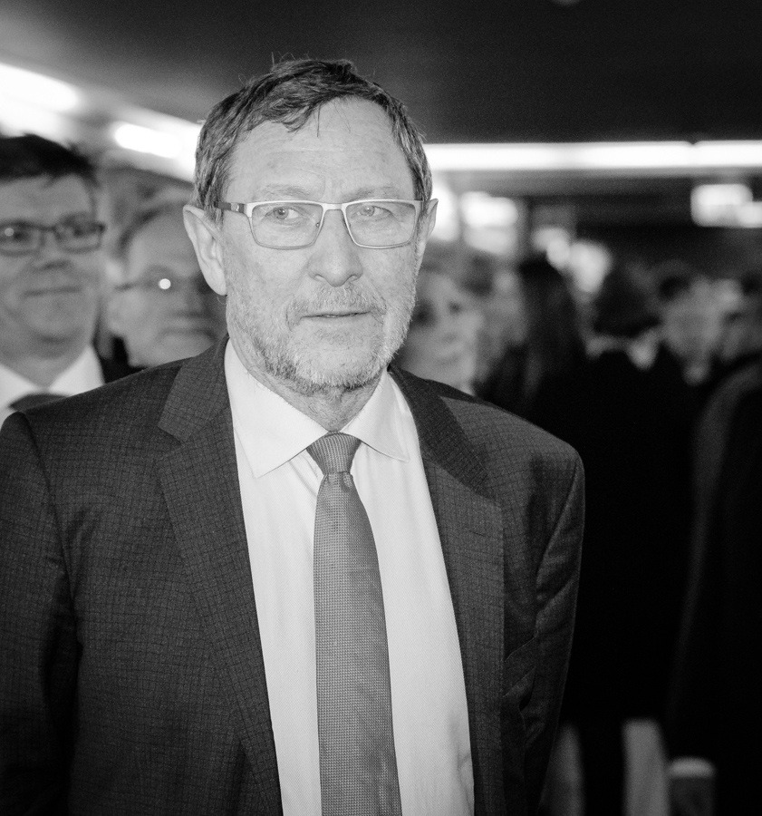 Tore Eriksen at Governor Øystein Olsen's annual address in February 2018